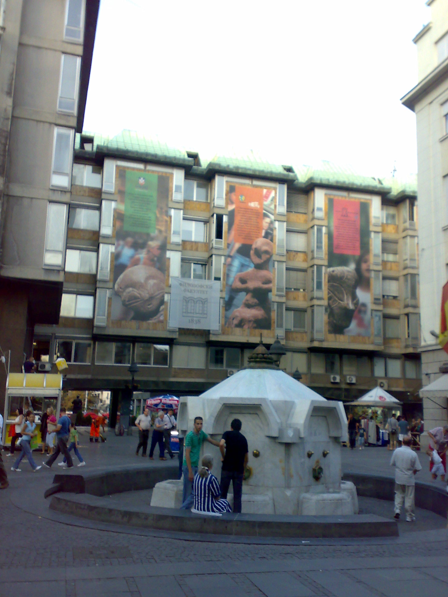 University of Belgrade, Philosophy Faculty